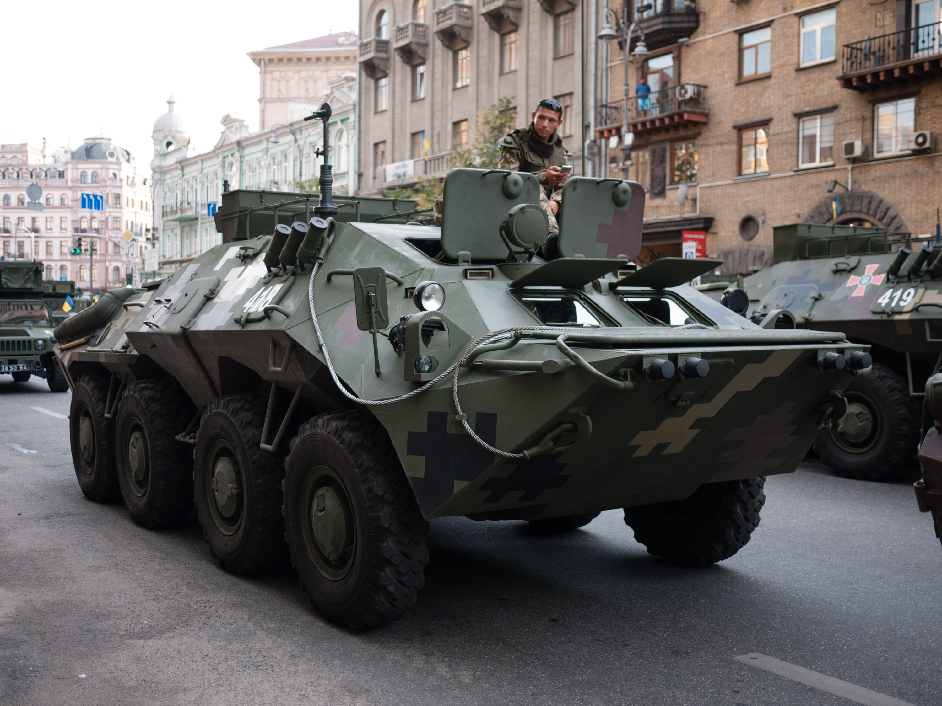 BTR-70DI-02 armored personnel carrier, rehearsal for the Independence Day military parade in Kyiv, 2018